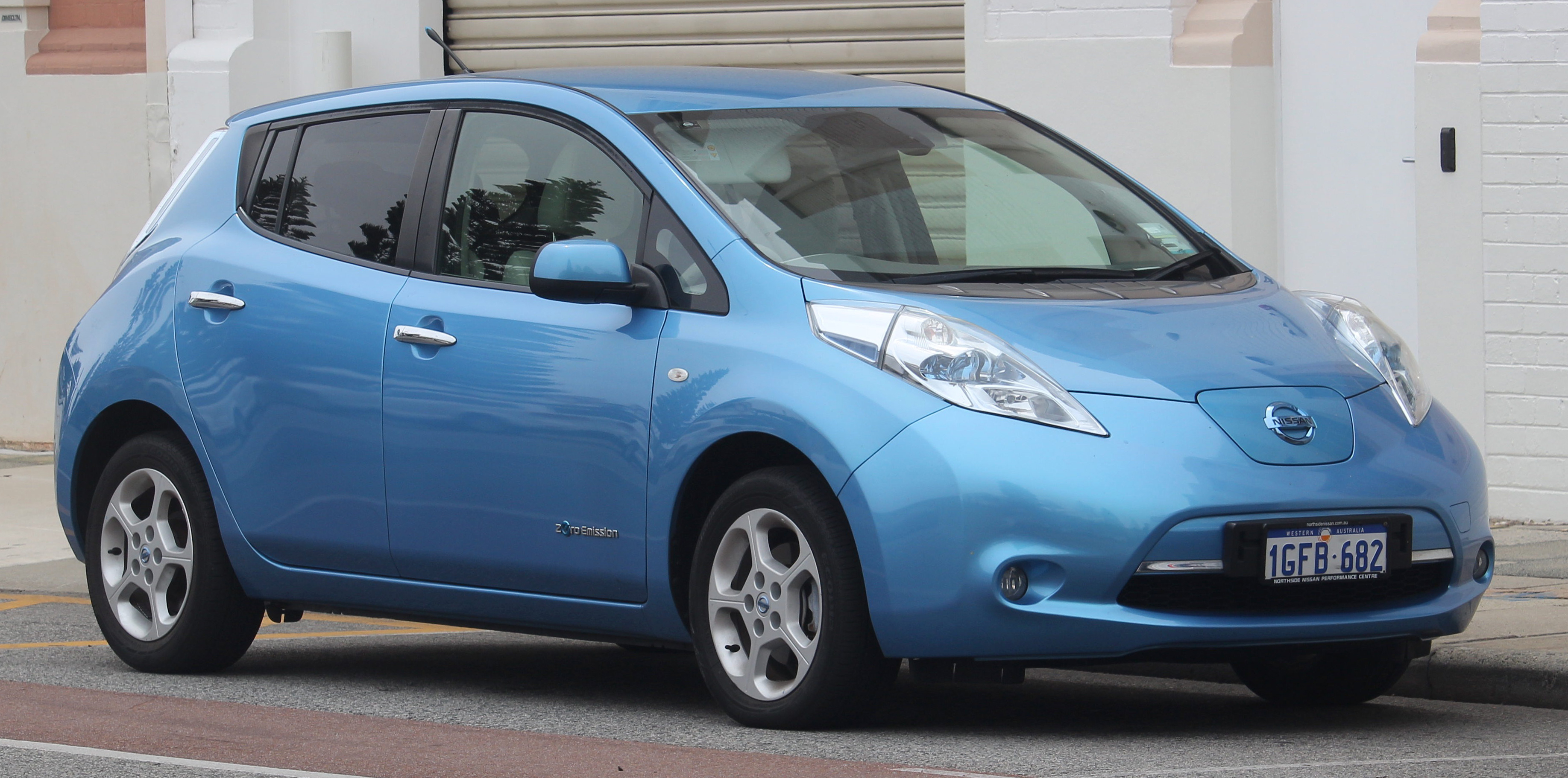 2017 Nissan LEAF (ZE0 MY17) hatchback. Photographed in Fremantle, Western Australia, Australia.